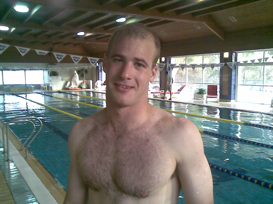 Shaked Zarotski may 2010